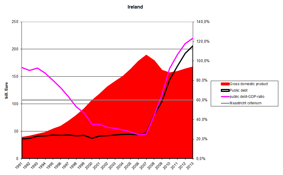 public debt, gdp, debt-dgp-ratio Ireland. Source of data ameco data from European Commission, own computations